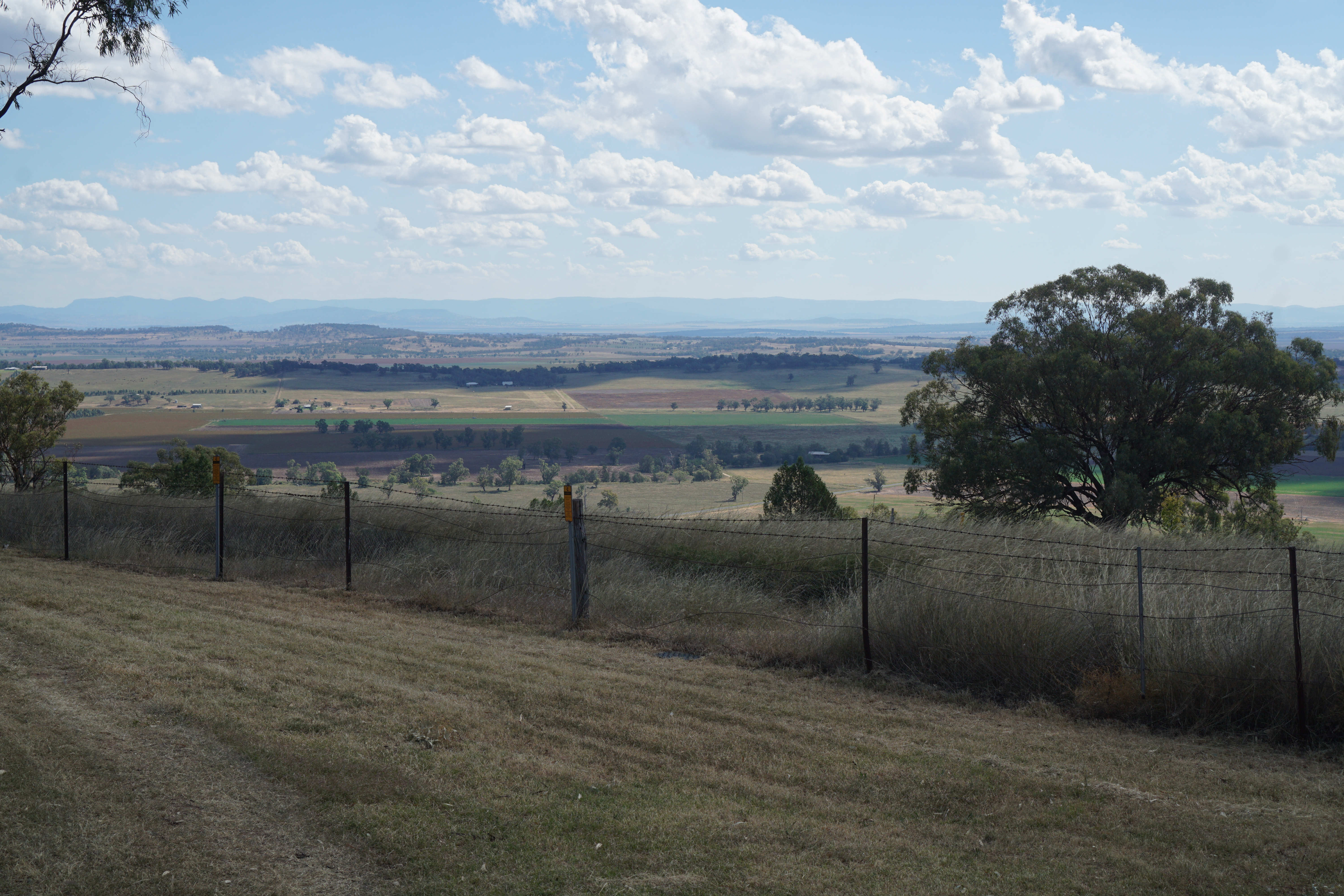 View over Liverpool Plains Shire, New South Wales, Australia